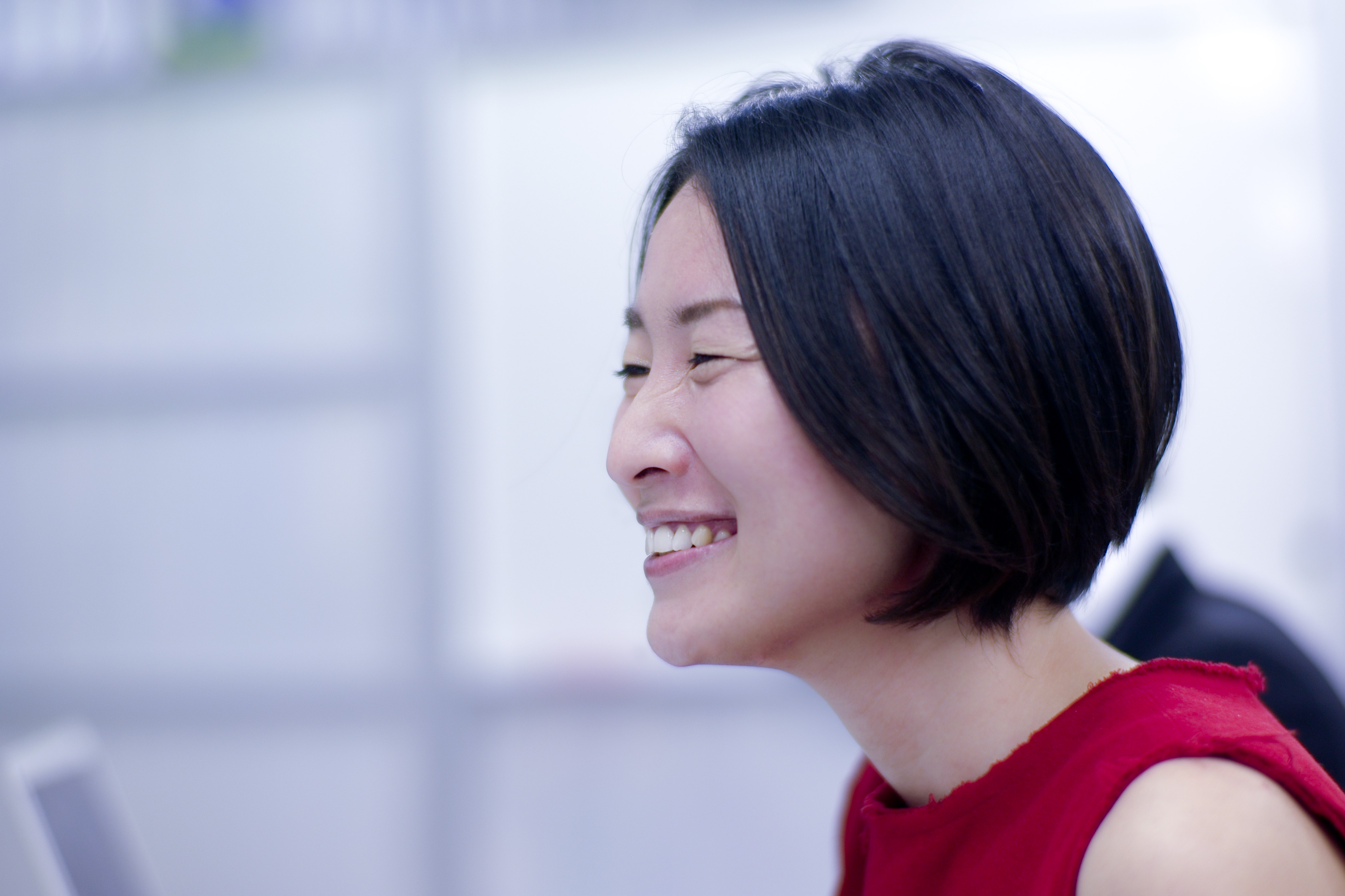 Chiaki Hayashi (Co-Founder of Loftwork Inc., Project Cordinator in Culture and GLAM at Creative Commons)